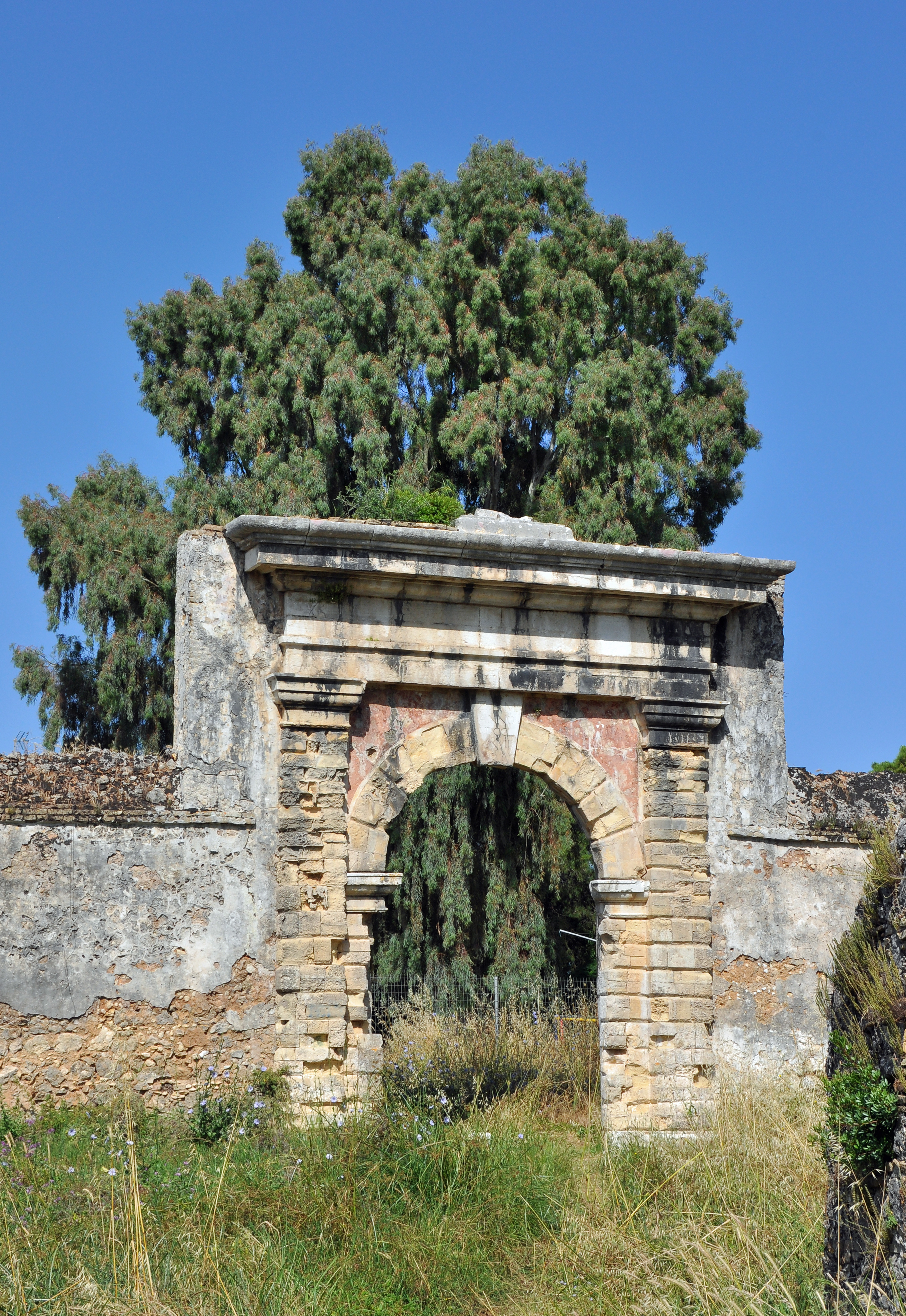 Gouvia (Corfu island, Greece): ruins of the former Venetian shipyard